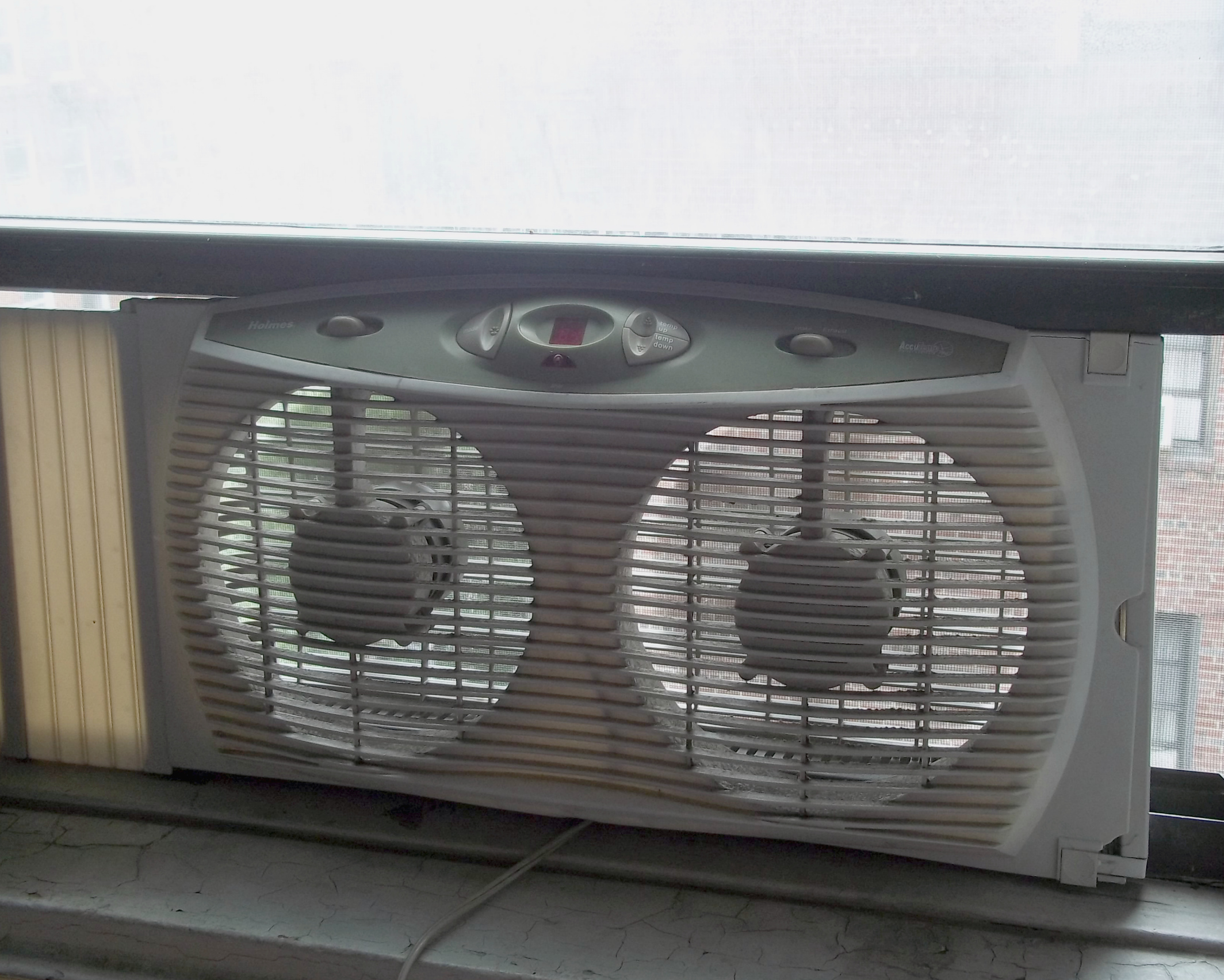 A typical household window fan.